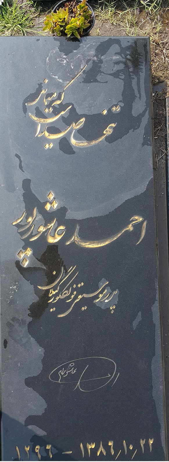 Soleiman Darab